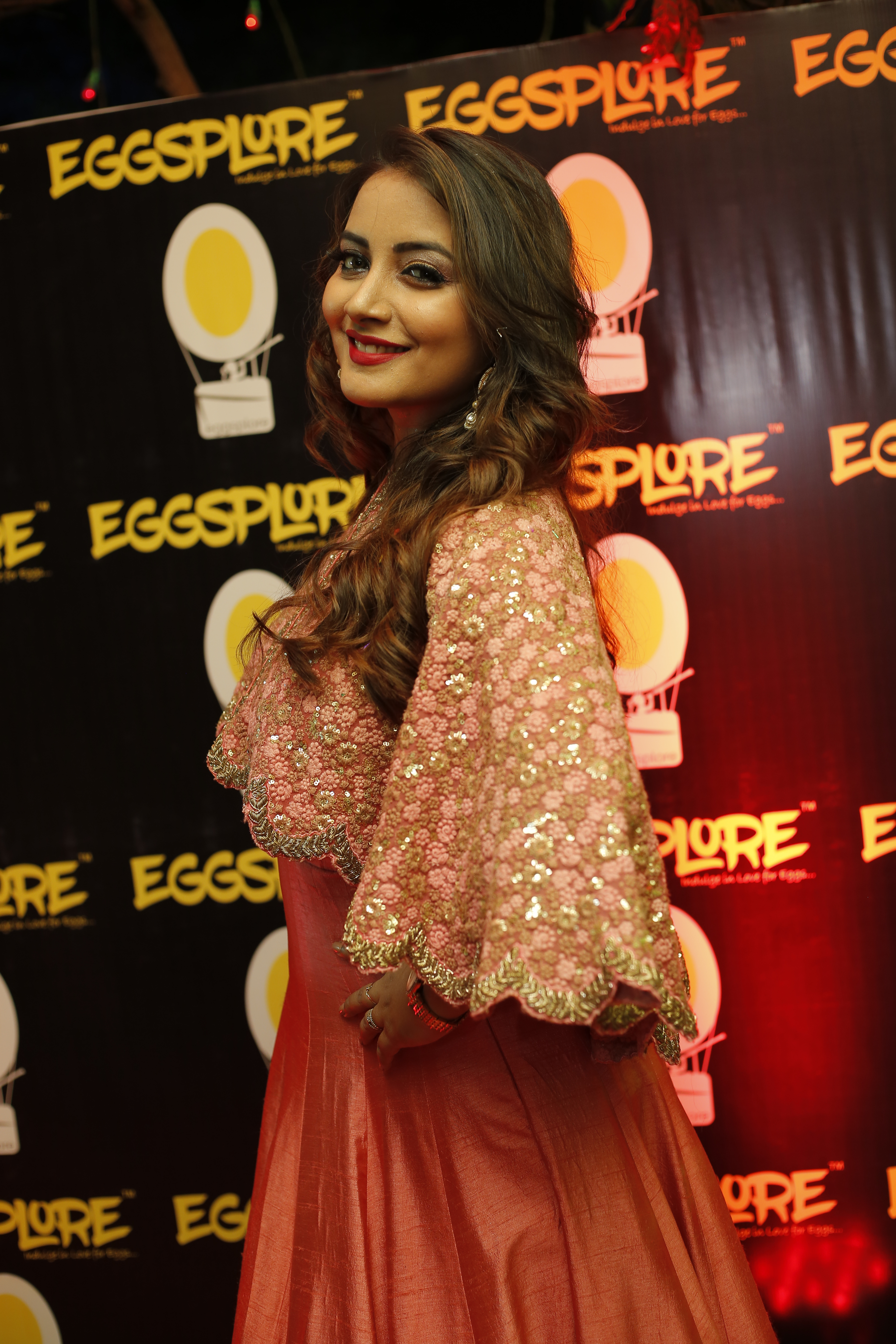 This is a picture of actress Nidhi Uttam from a brand franchisee she inaugurated in end of 2018